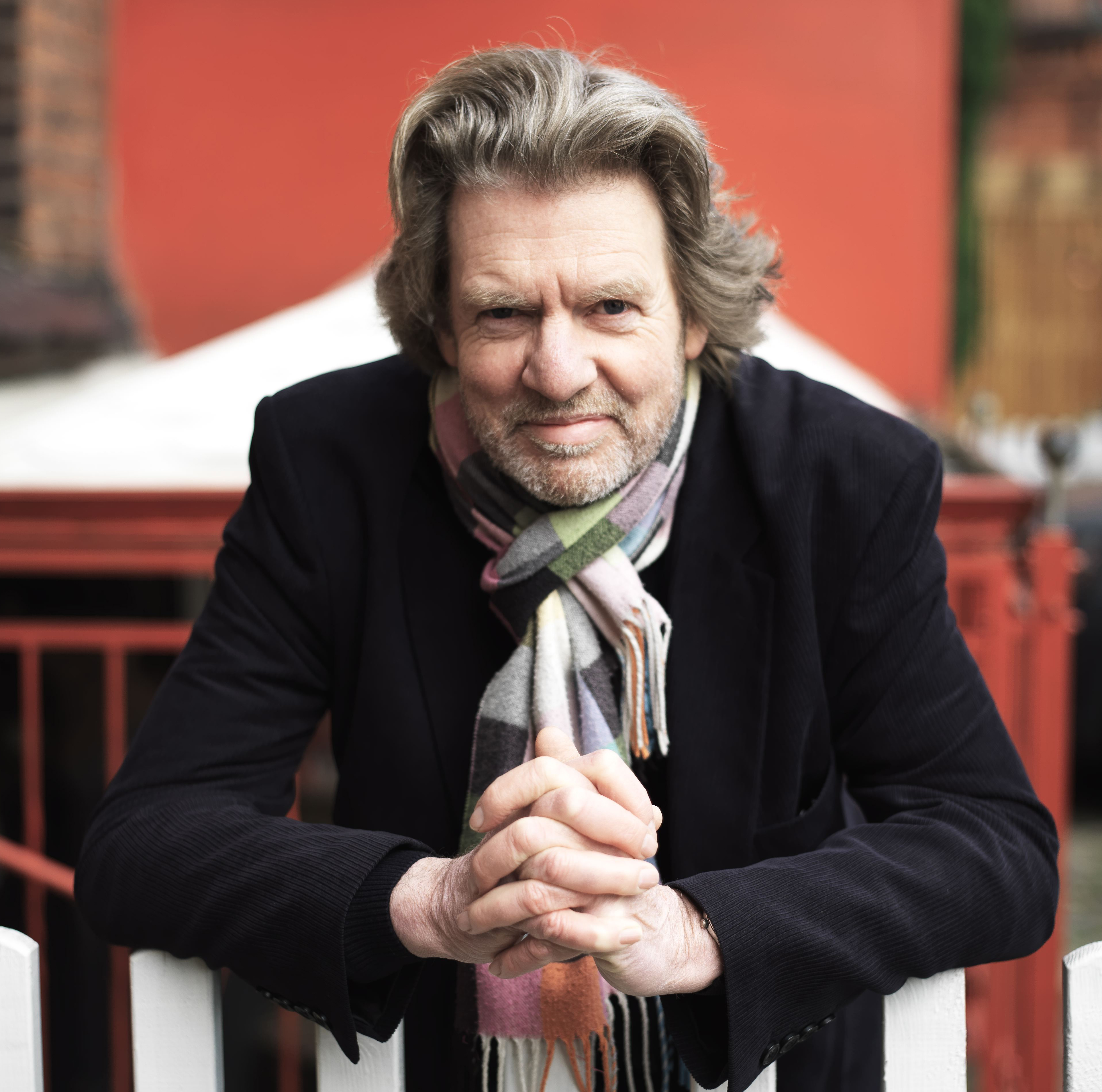 A 1412